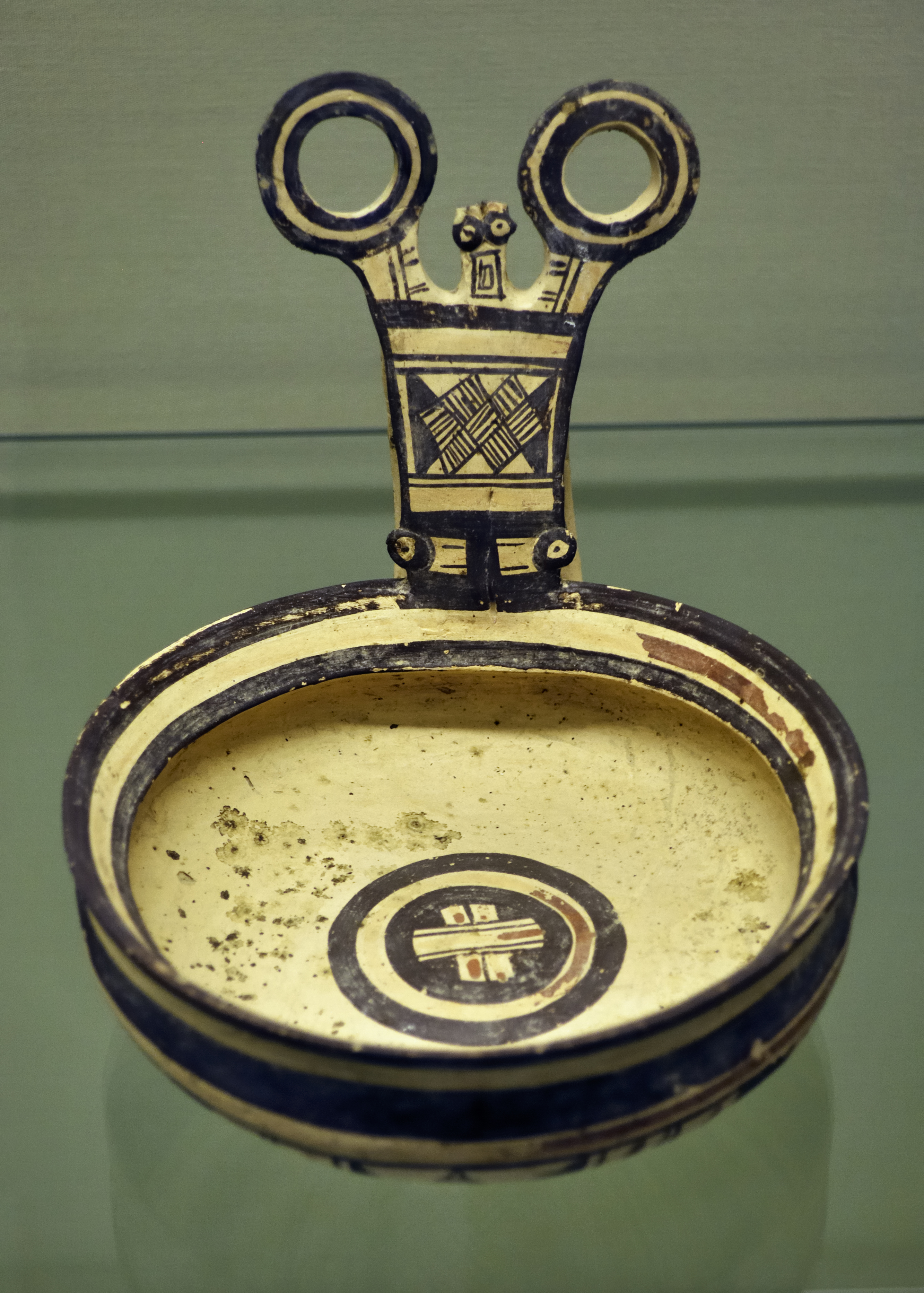 Picture taken in Hetjens-Museum Düsseldorf before Duisburg summer meetup 2010.